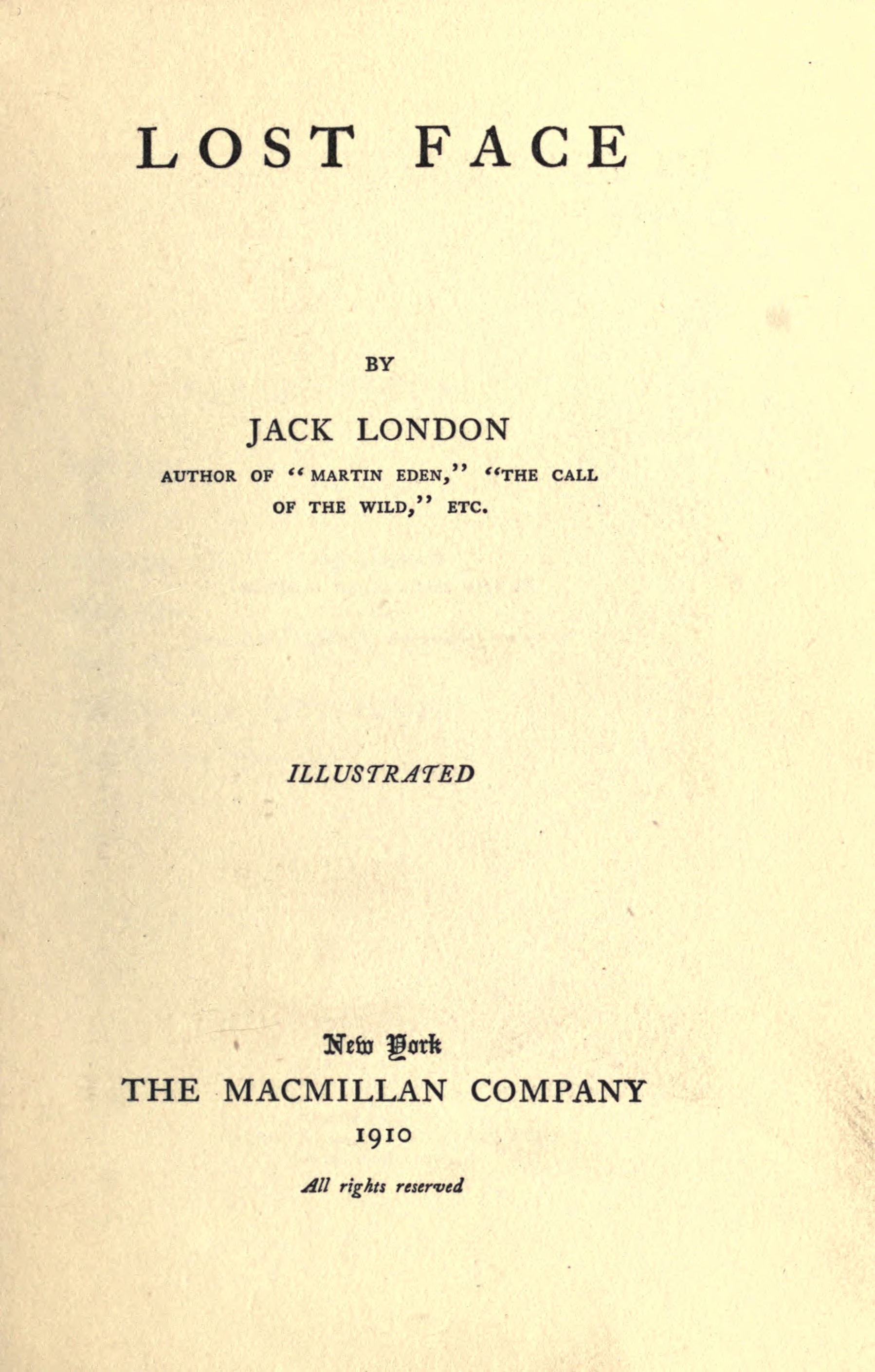 Title page of Lost Face; page layout by anonymous typesetter.